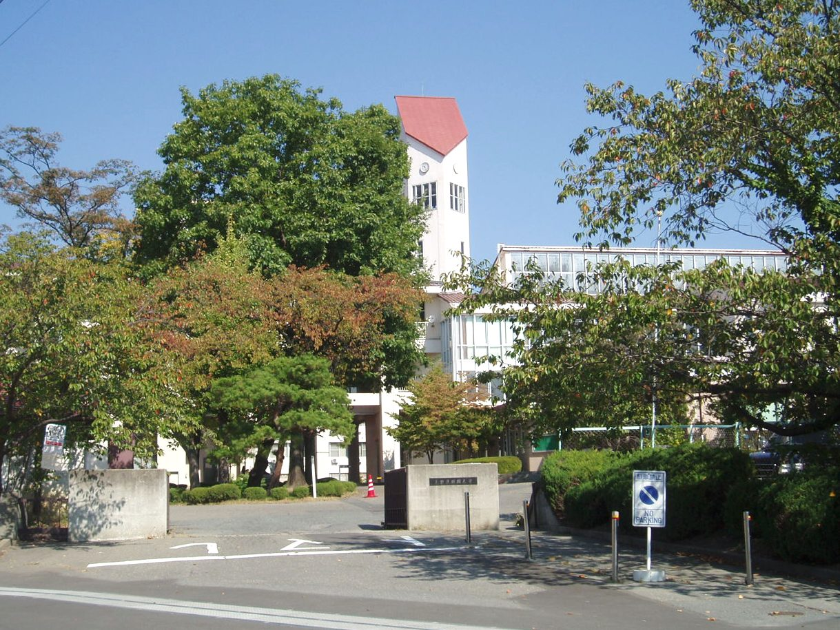 Main entrance to Nagano Prefectural College located in Nagano, Nagano, Japan.